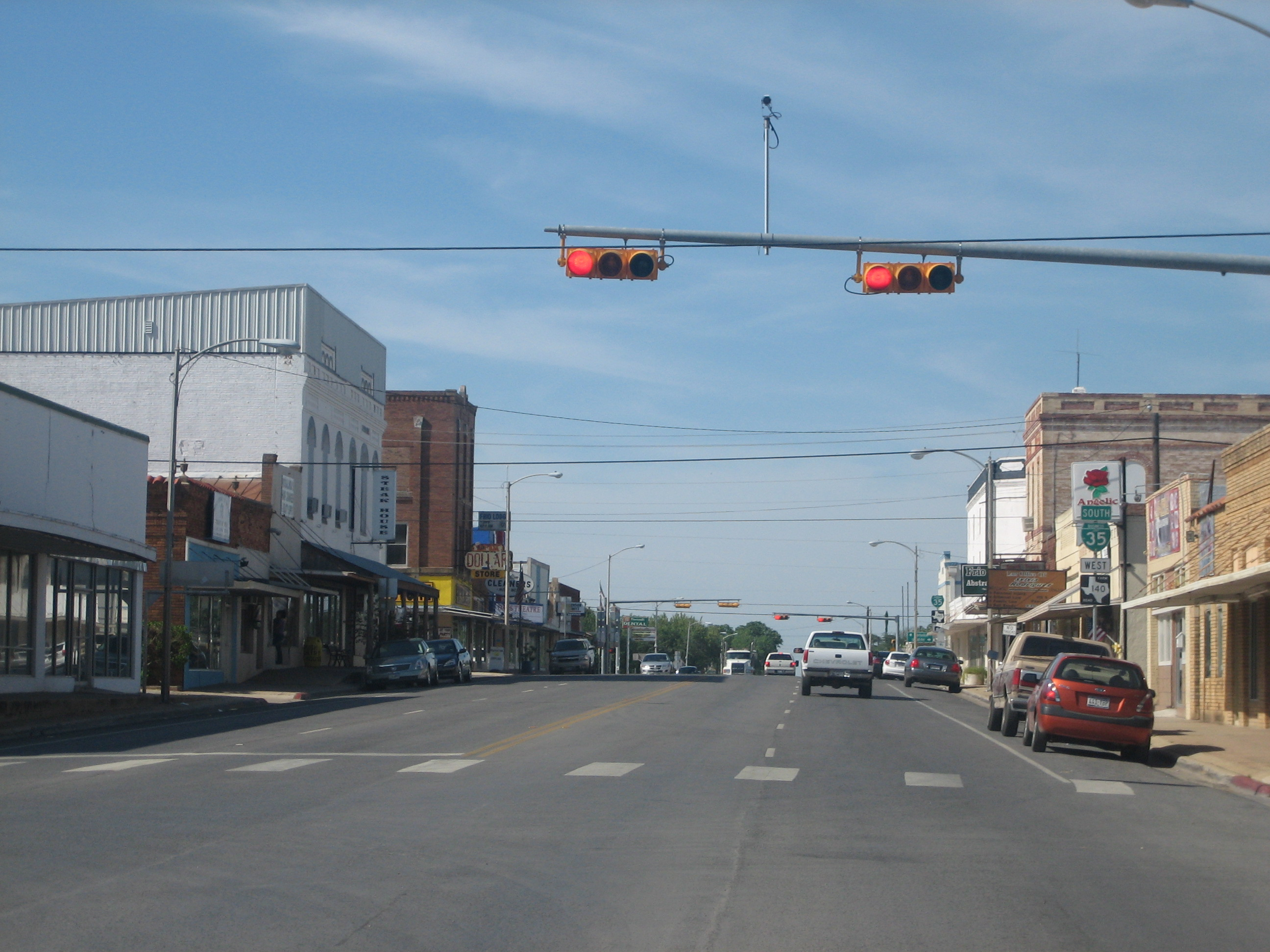 I took photo on May 19, 2009.Billy Hathorn (talk) 16:18, 30 May 2009 (UTC)